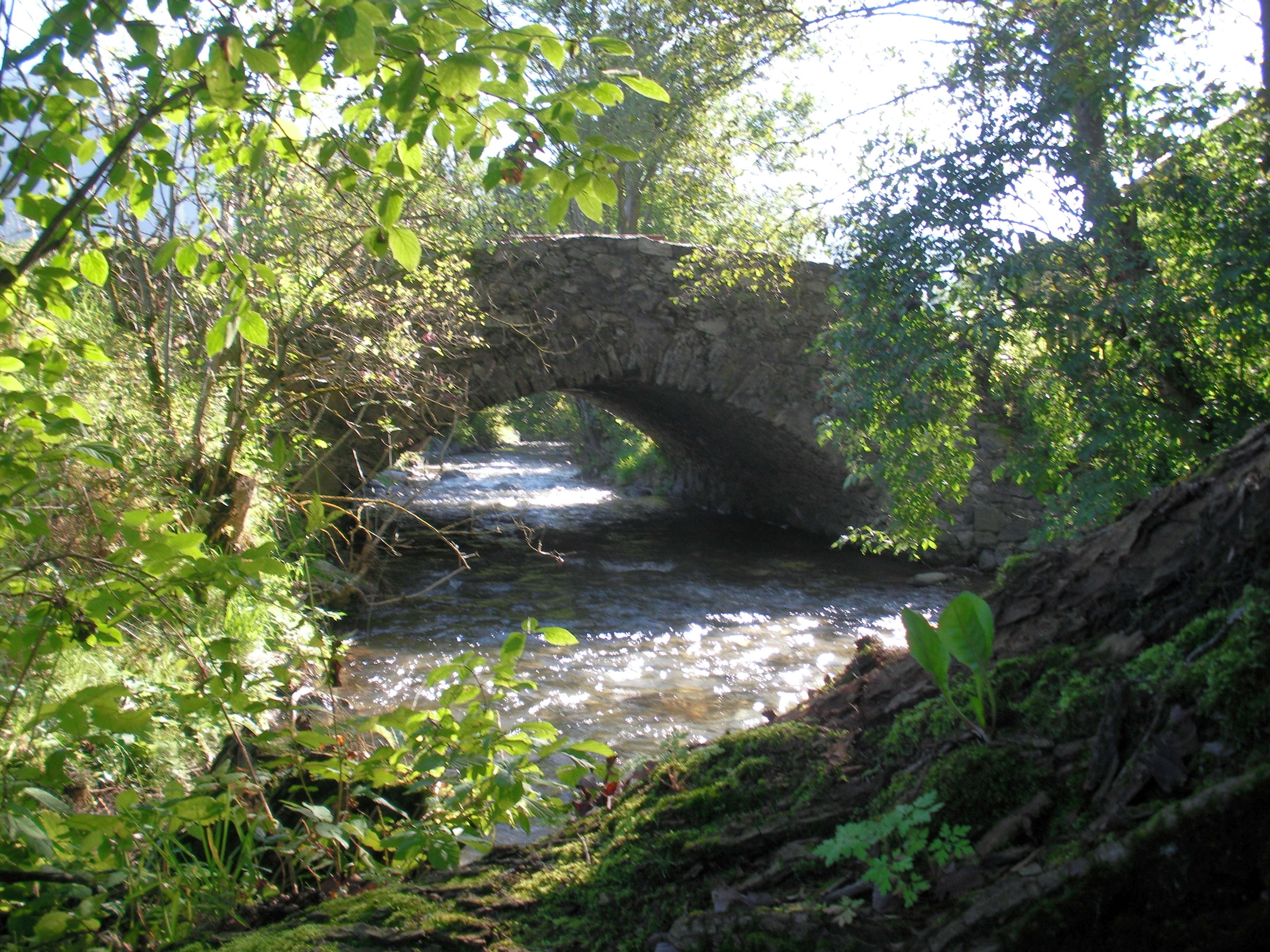 Oberzeiring Roman bridge.